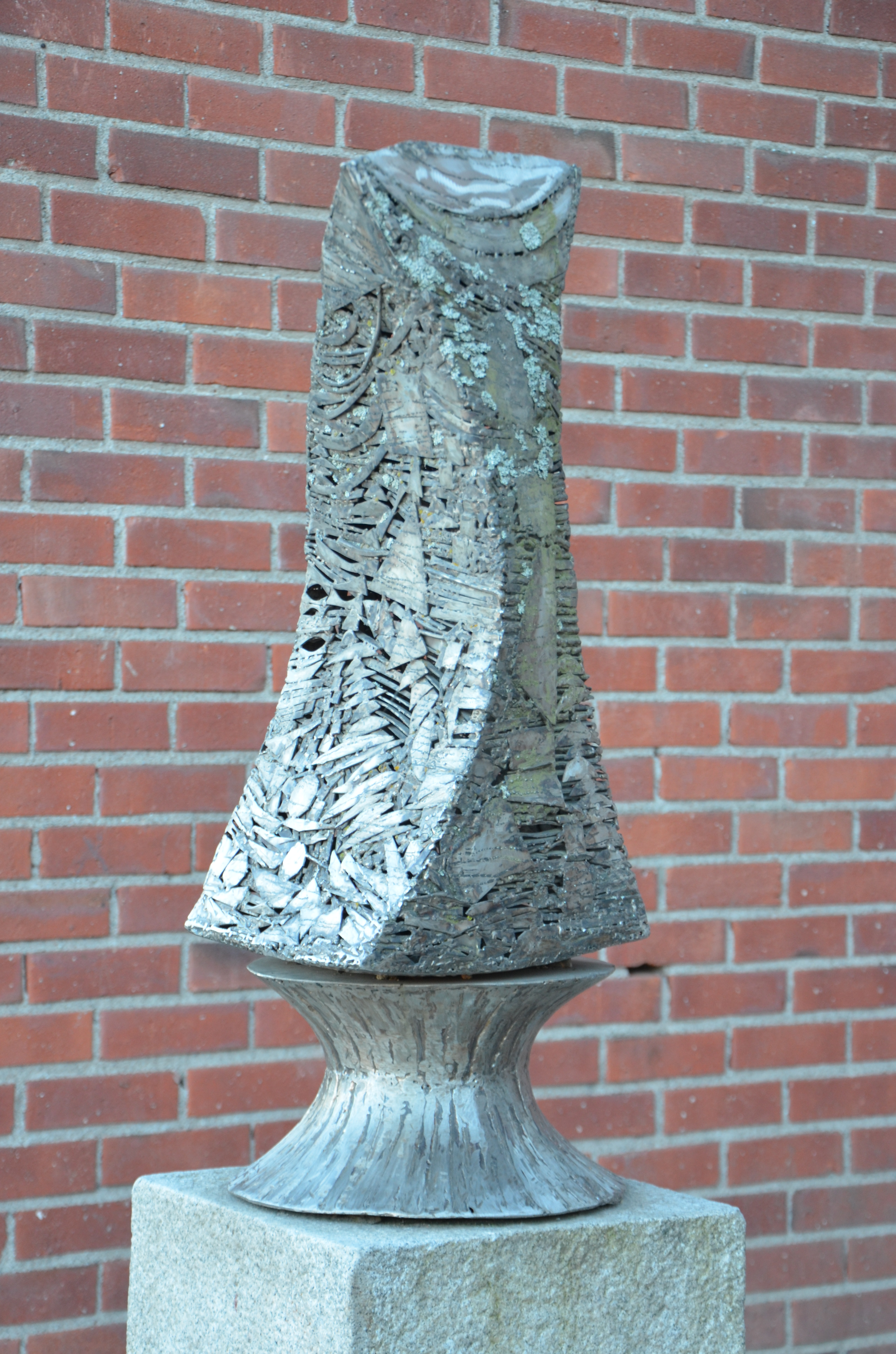 Palladium av Palle Pernevi, Bredäng, Stockholm, Sweden